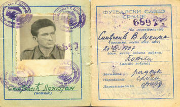 Football club document